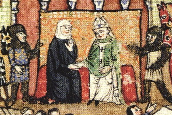 Lucia of Tripoli (presumably, since she was the ruler of the County of Tripoli at that time)